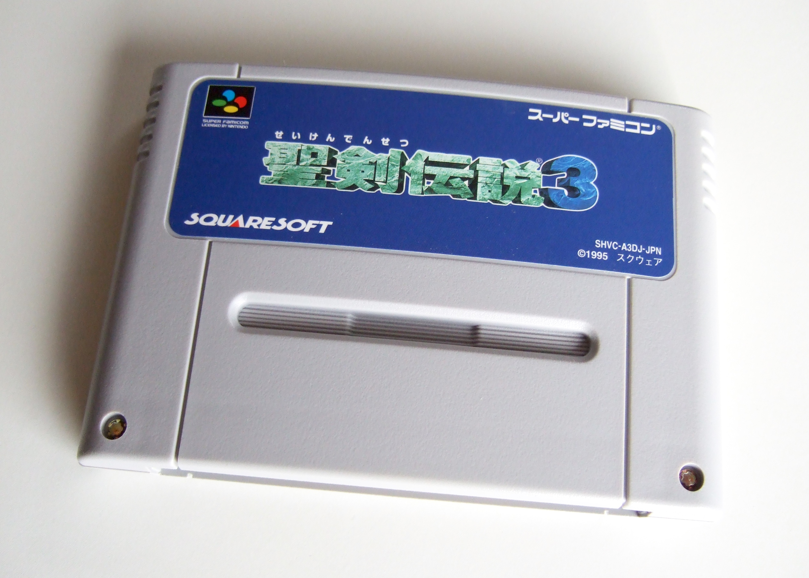 The video game cart for the SNES game "Seiken Densetsu 3".